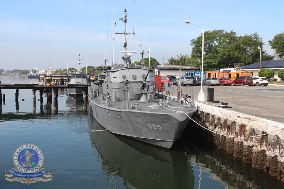 BRP Felix Apolinario (PC-395), one of the Jose Andrada-class patrol boats of the Philippine Navy, as it was seen on December 27, 2018.